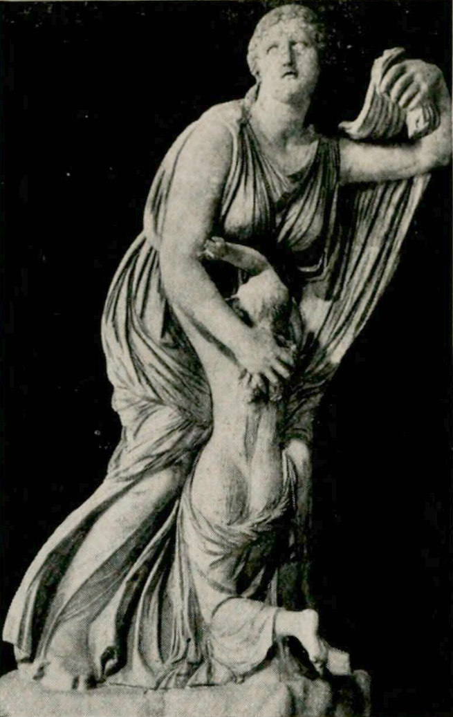 Niobe, in an agony of grief, which is in the marble tempered and idealized, tries to protect her youngest daughter from destruction. (Galleria degli Uffizi in Florence)